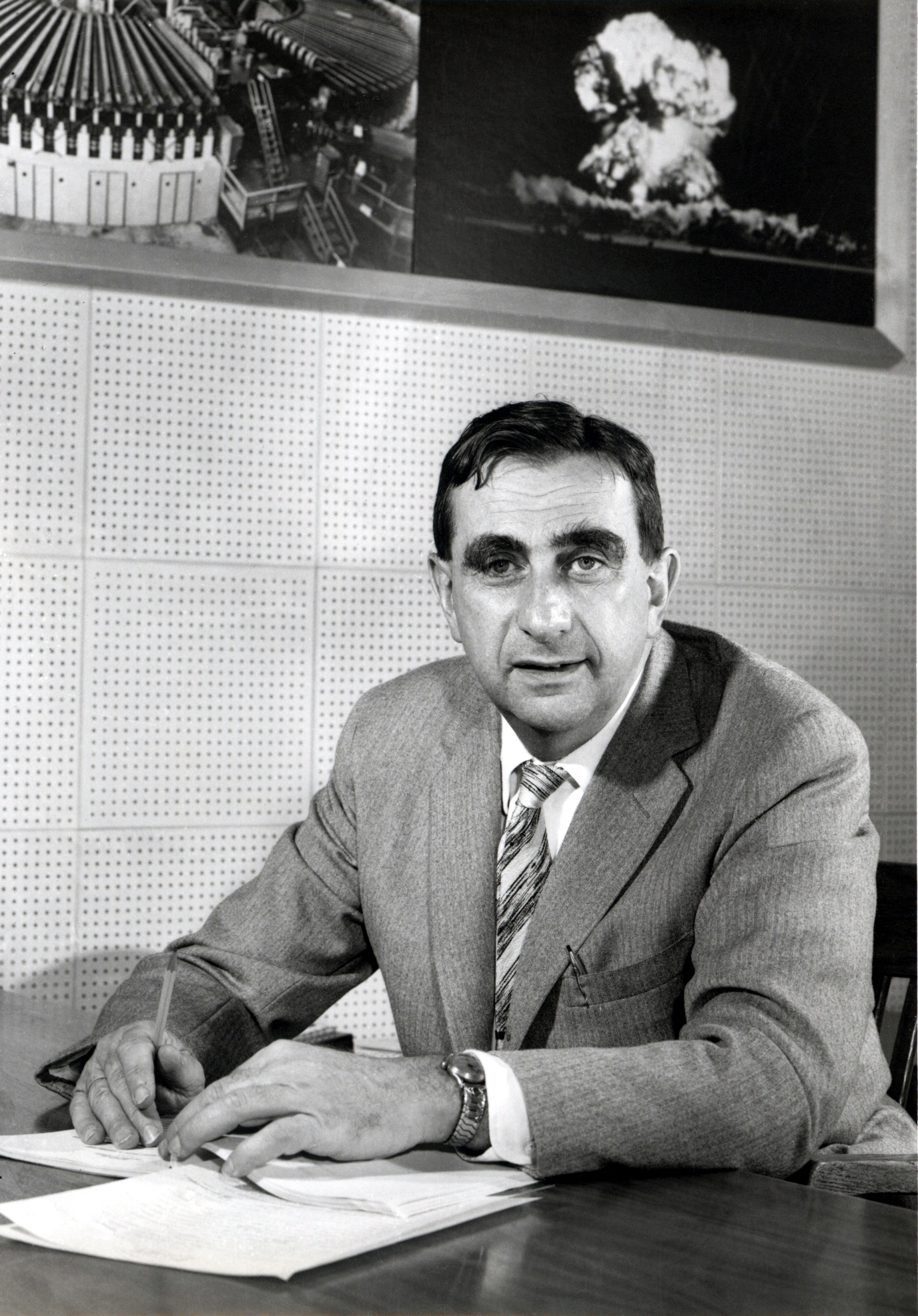 Edward Teller, in 1958, as Director of Lawrence Livermore National Laboratory. Note that the picture at his top left is of the Alpha Calutron Racetrack from the Manhattan Project, and the picture at his top right is of the 1953 BADGER nuclear test. Image credit Lawrence Livermore National Laboratory, original at [1], restoration Greg L and Papa Lima Whiskey